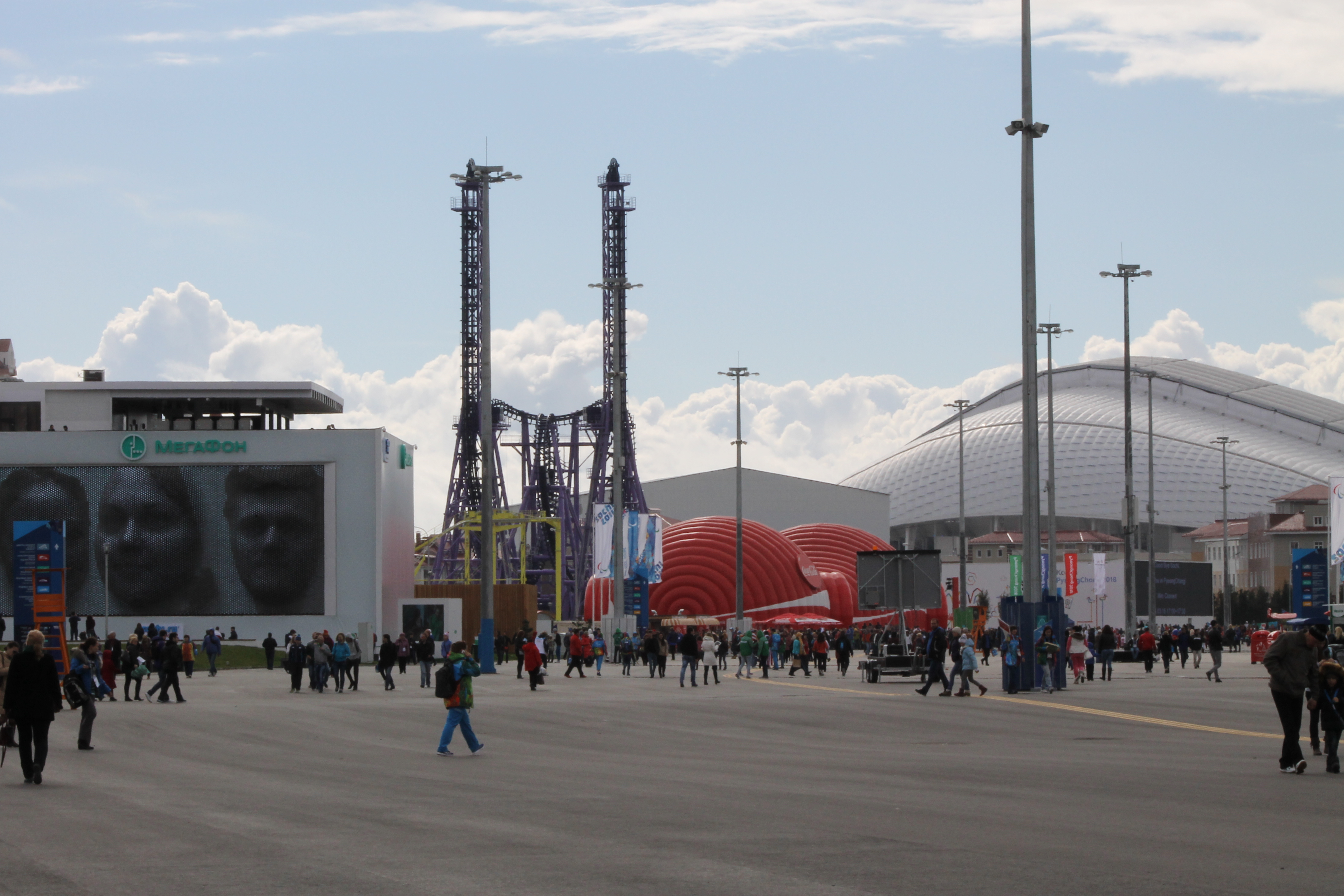 In Sochi Olympic Park during the 2014 Winter Olympics